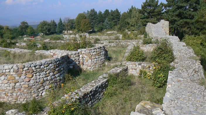 Krakra fortress near the town of Pernik, Bulgaria